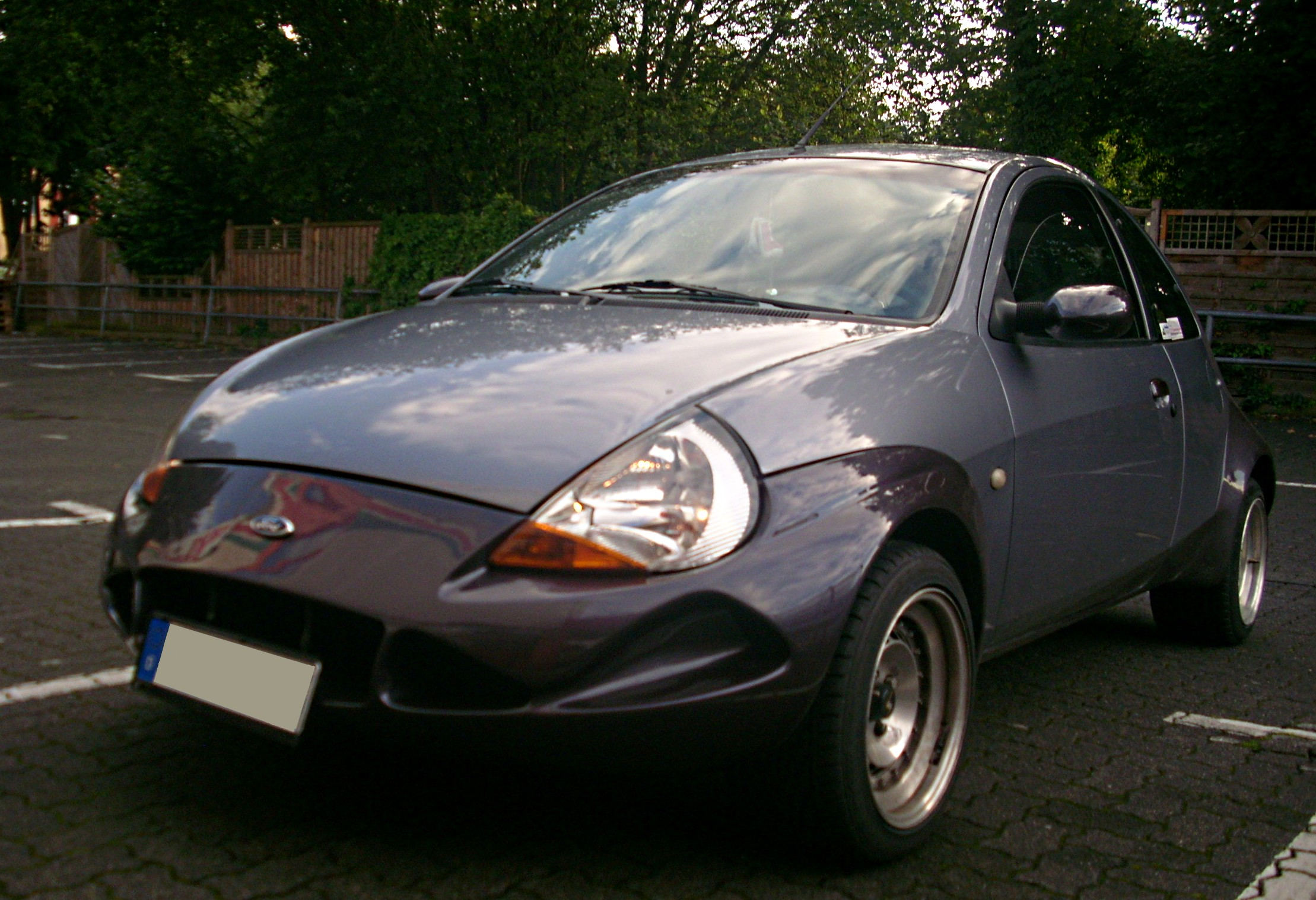 Ford Ka Colani, front view